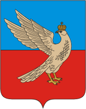 Coat of Arms of Suzdal, a rtown in Russia